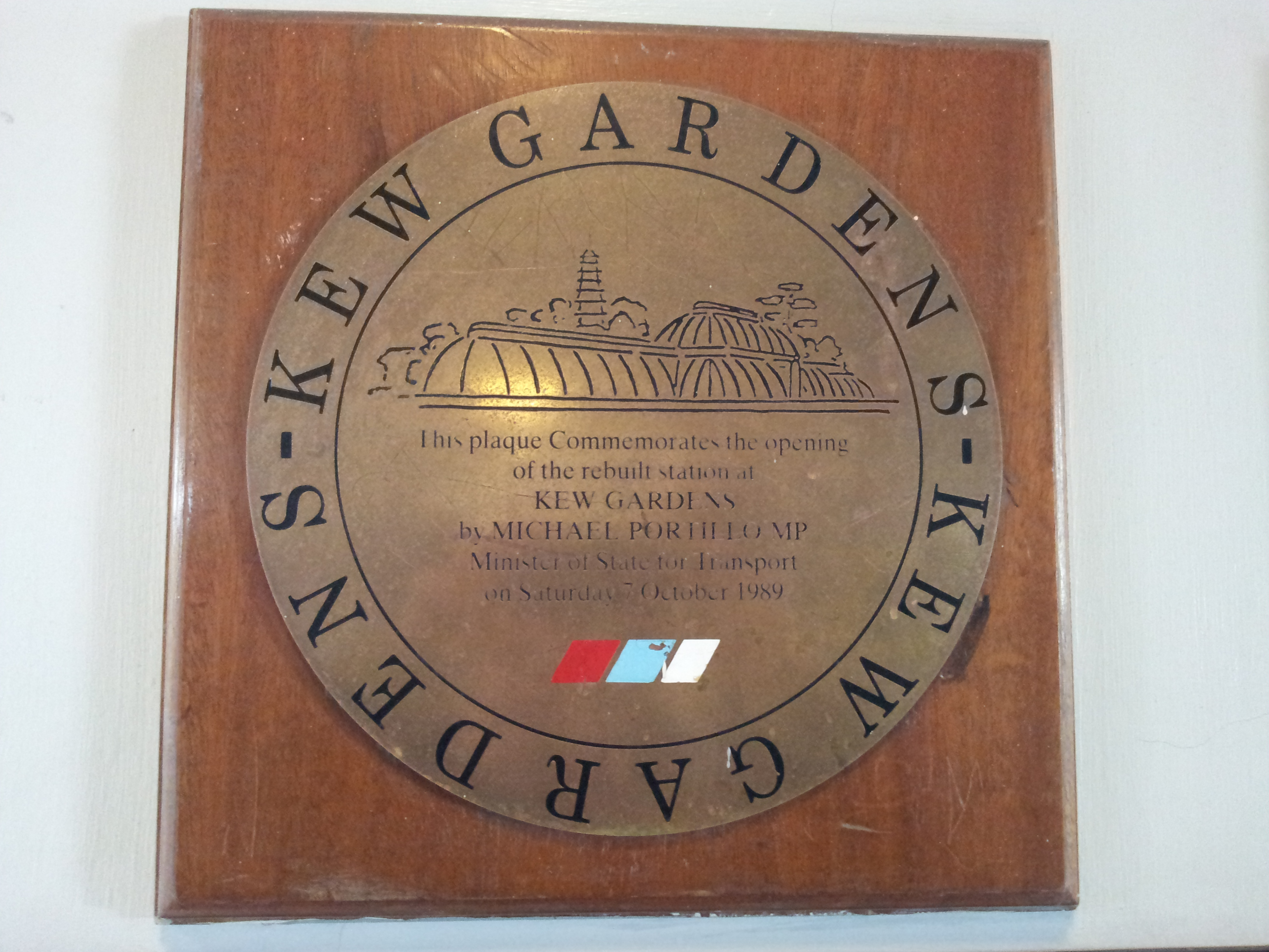 Plaque at Kew Gardens station (London) commemorating its reopening by Michael Portillo in 1989